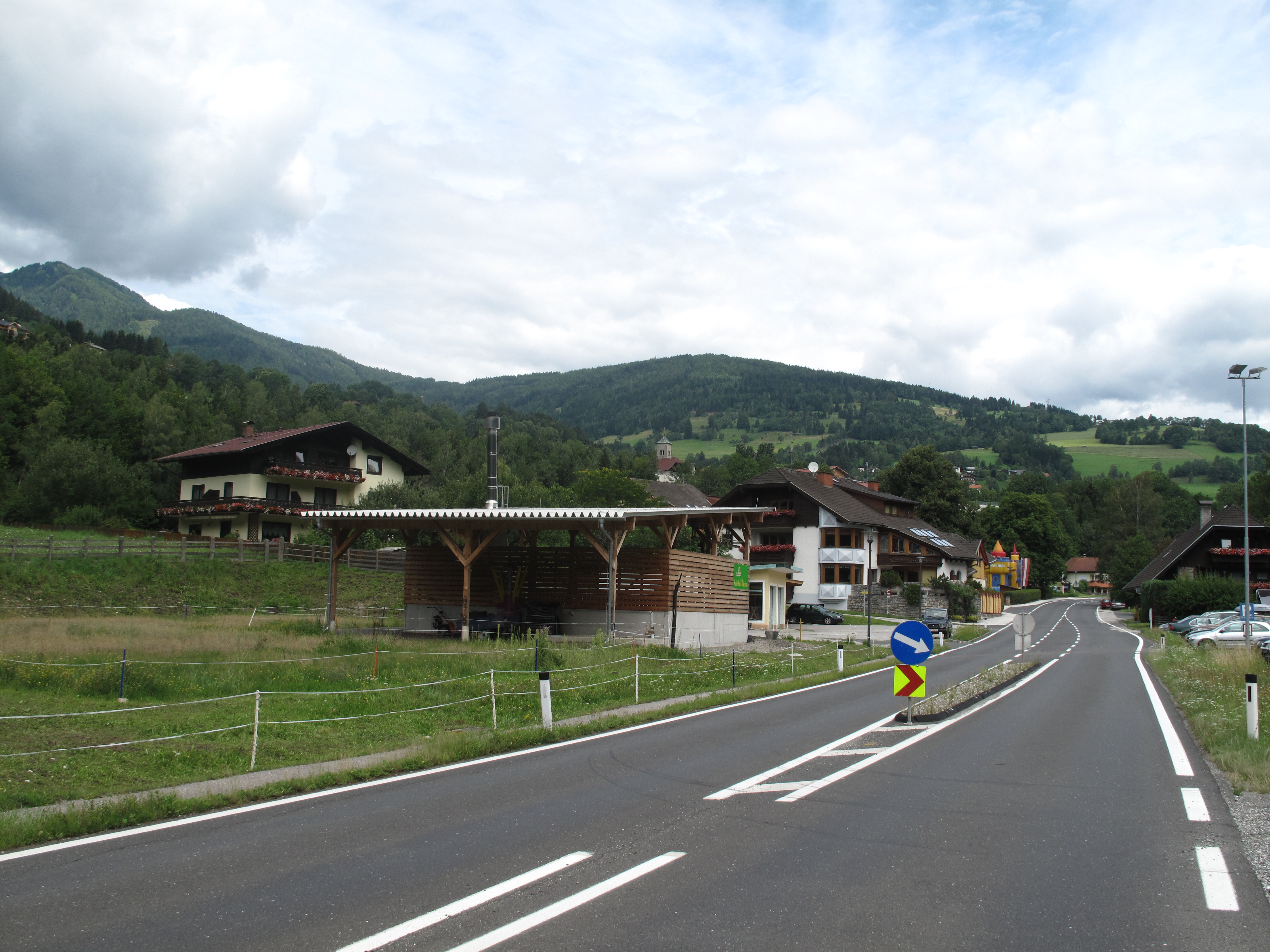 between Trebesing Bad and Gmünd, road panorama